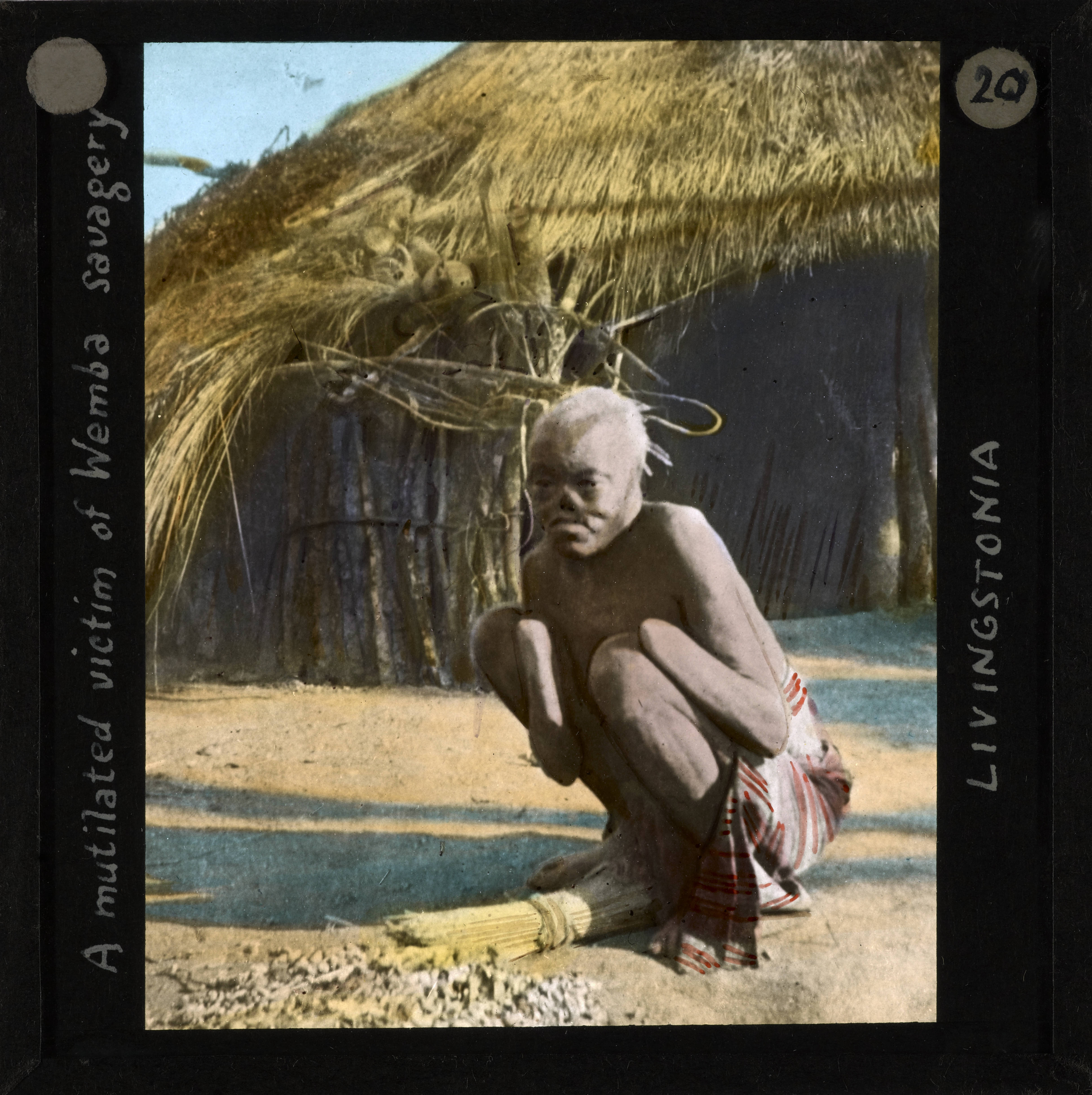 "A mutilated victim of Wemba savagery, Livingstonia", ca.1910 Photograph of a man squatting on the ground outside a thatched hut. The man has lost both of his hands and his nose.; This belongs to a series of Church of Scotland Foreign Missions Committee lantern slides relating to Rev Donald Fraser (1870-1933). Rev Donald Fraser, the Scottish missionary, was born in Argyllshire, Scotland, the son of a Free Church minister. In his youth Rev Fraser helped found the Student Volunteer Movement in Britain and the World Student Christian Federation before beginning missionary service in Malawi with the Free Church of Scotland. He worked in Malawi from 1896 until he returned to Scotland in 1925. He was first posted to Ekwendeni and later Embangweni. Rev Fraser worked closely with the Ngoni people. Photographer: Unknown Filename: imp-cswc-GB-237-CSWC47-LS4-1-020.tif Coverage date: circa 1910 Part of collection: International Mission Photography Archive, ca.1860-ca.1960 Type: images Part of subcollection: Photographs from the Centre for the Study of World Christianity, University of Edinburgh, U.K., ca.1900-ca.1940s Repository name: Centre for the Study of World Christianity Archival file: impaunpub_Volume7/1469.url Repository address: The University of Edinburgh School of Divinity, New College, Mound Place, Edinburgh EH1 2LX, United Kingdom Geographic subject (country): Zambia Format (aacr2): 1 lantern slide : 8 x 8 cm. Geographic subject (continent): Africa Rights: Contact the repository for details. Part of series: Donald Fraser of Loudon LS4/1 Repository Subject (lcsh Keyword): War wounds; Tribes Date created: circa 1910 Publisher (of the digital version): University of Southern California. Libraries Subject (aat genre): exterior views Format (aat): lantern slides Legacy record ID: impa-m68517 Access conditions: File: GB 237 CSWC47/LS4/1/20